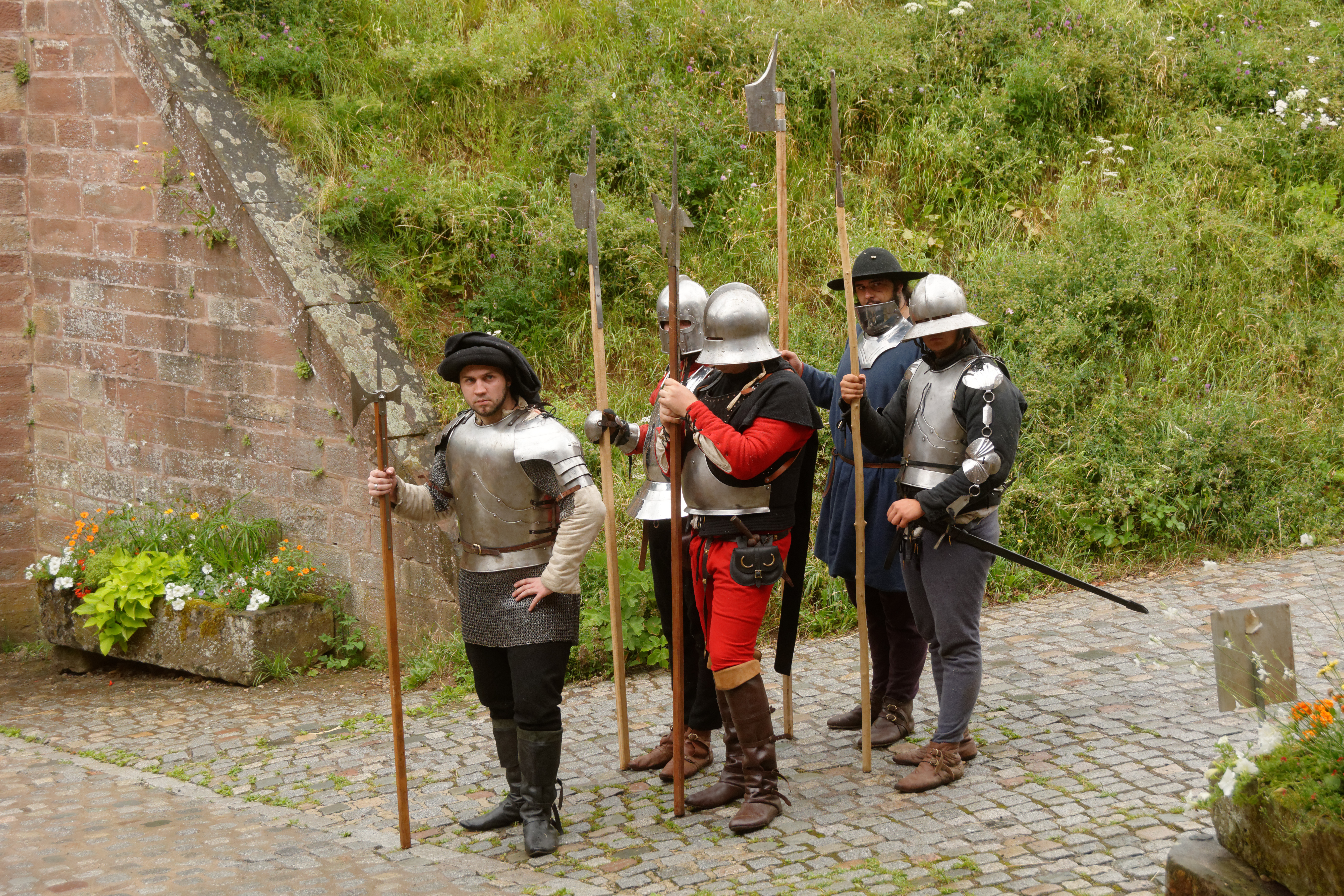 Personality rights warningAlthough this work is freely licensed or in the public domain, the person(s) shown may have rights that legally restrict certain re-uses unless those depicted consent to such uses. In these cases, a model release or other evidence of consent could protect you from infringement claims.